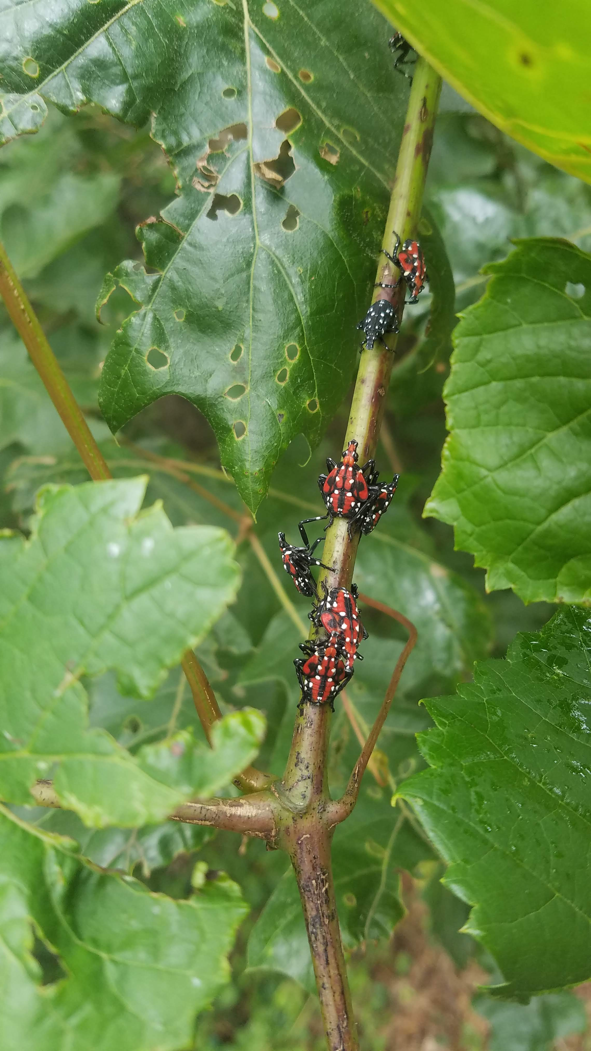 Young Spotted Lanternfly on Fox Grapes in Berks County, Pennsylvania, USA in July 2018.